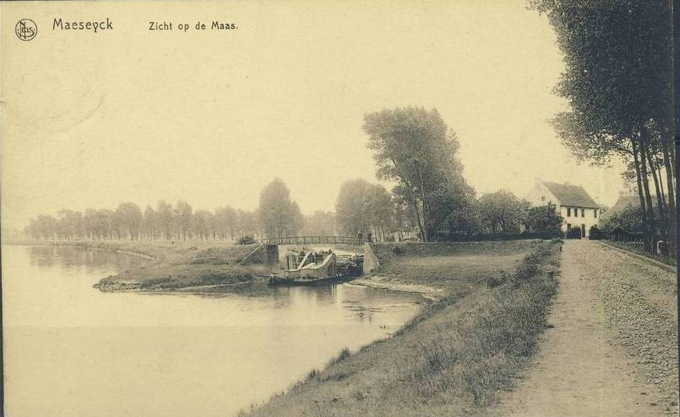 Former harbor of Maaseik